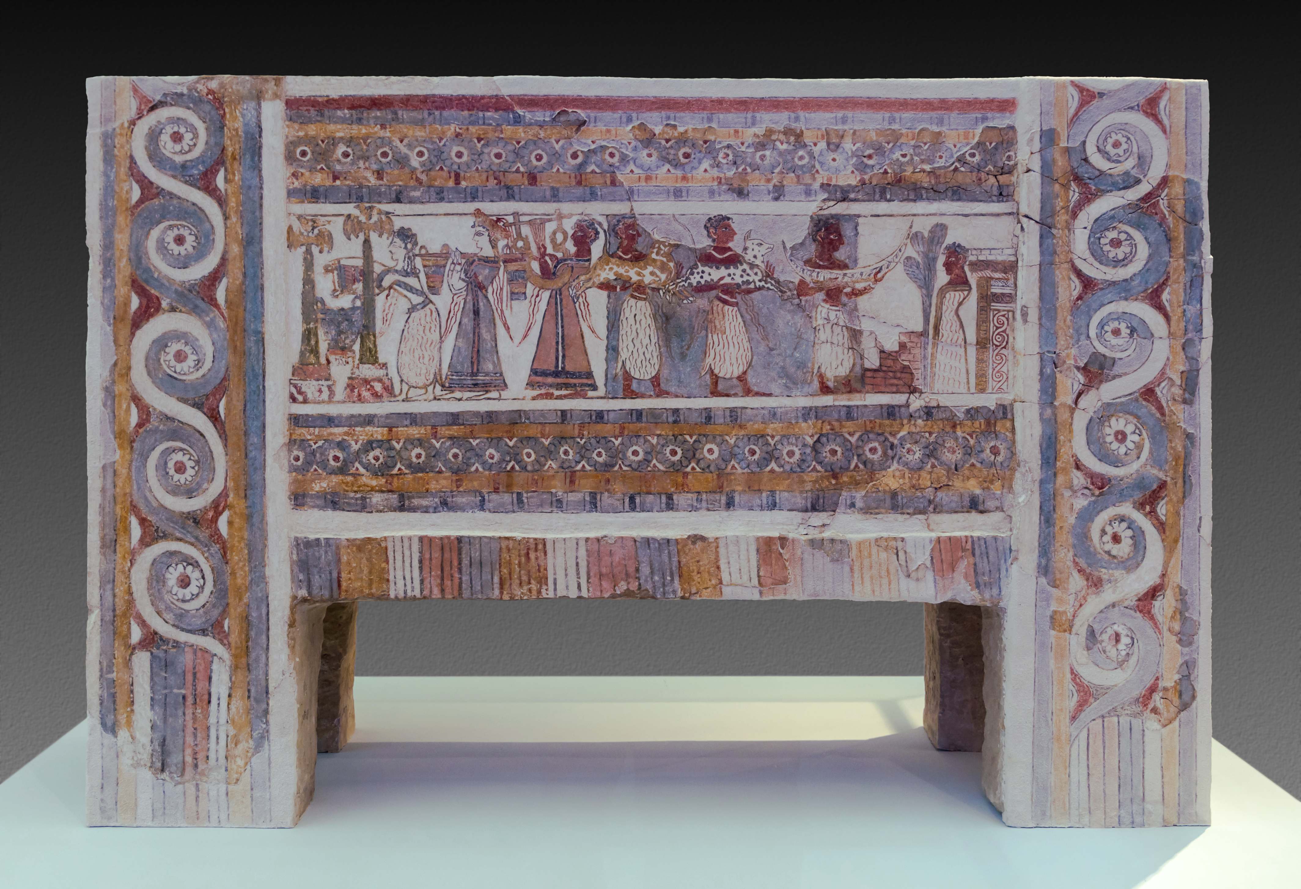 One of the lateral faces of the "Agia Triada" sarcophagus, Crete, Greece.